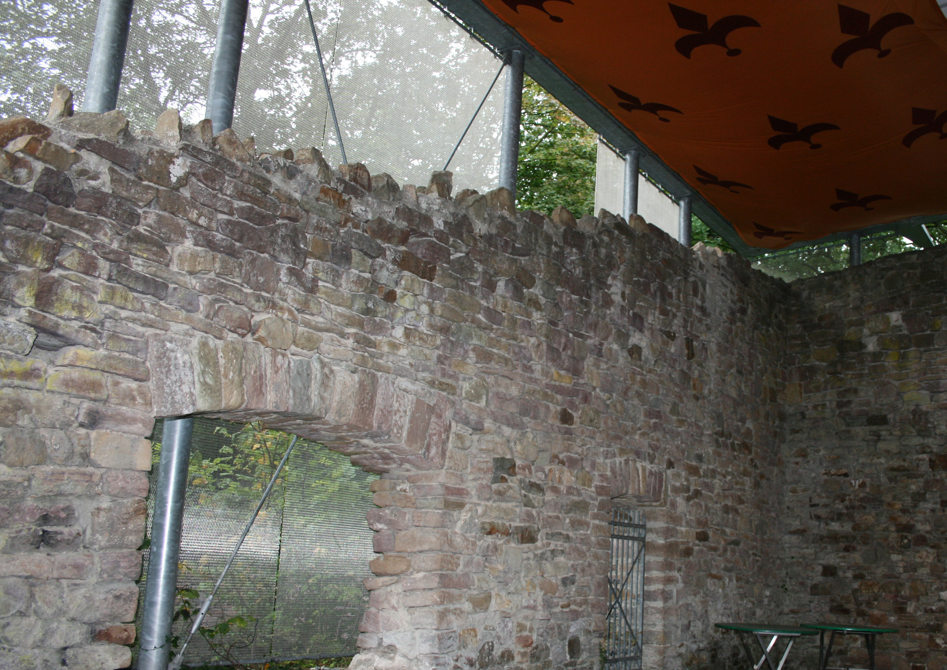 Ruin of Vlotho Castle in town of Vlotho, District of Herford, North Rhine-Westphalia, Germany.